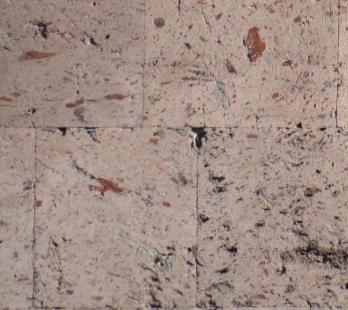 Pink ignimbrite from Armenia, used as a common building material for houses in Central Yerevan from the 1920's. Oxidized igniombrite, also labeled as tuff (welded tuff).